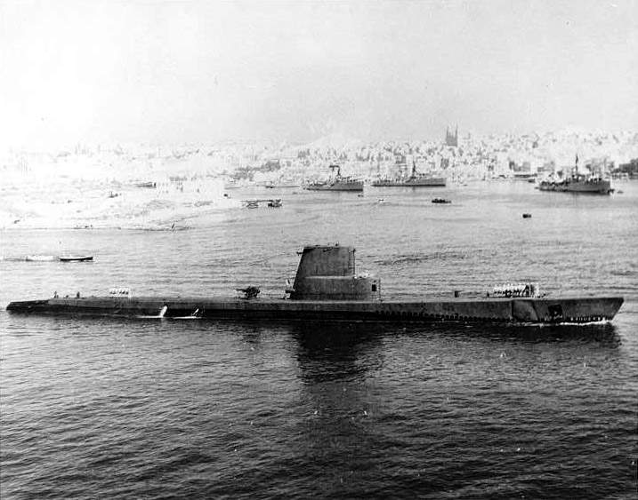 Torricelli_(S-512); Starboard side view of the ex-Lizardfish (SS-373) as the Italian Evangelista Torricelli (S-512) underway, circa 1960. USN photo courtesy of .